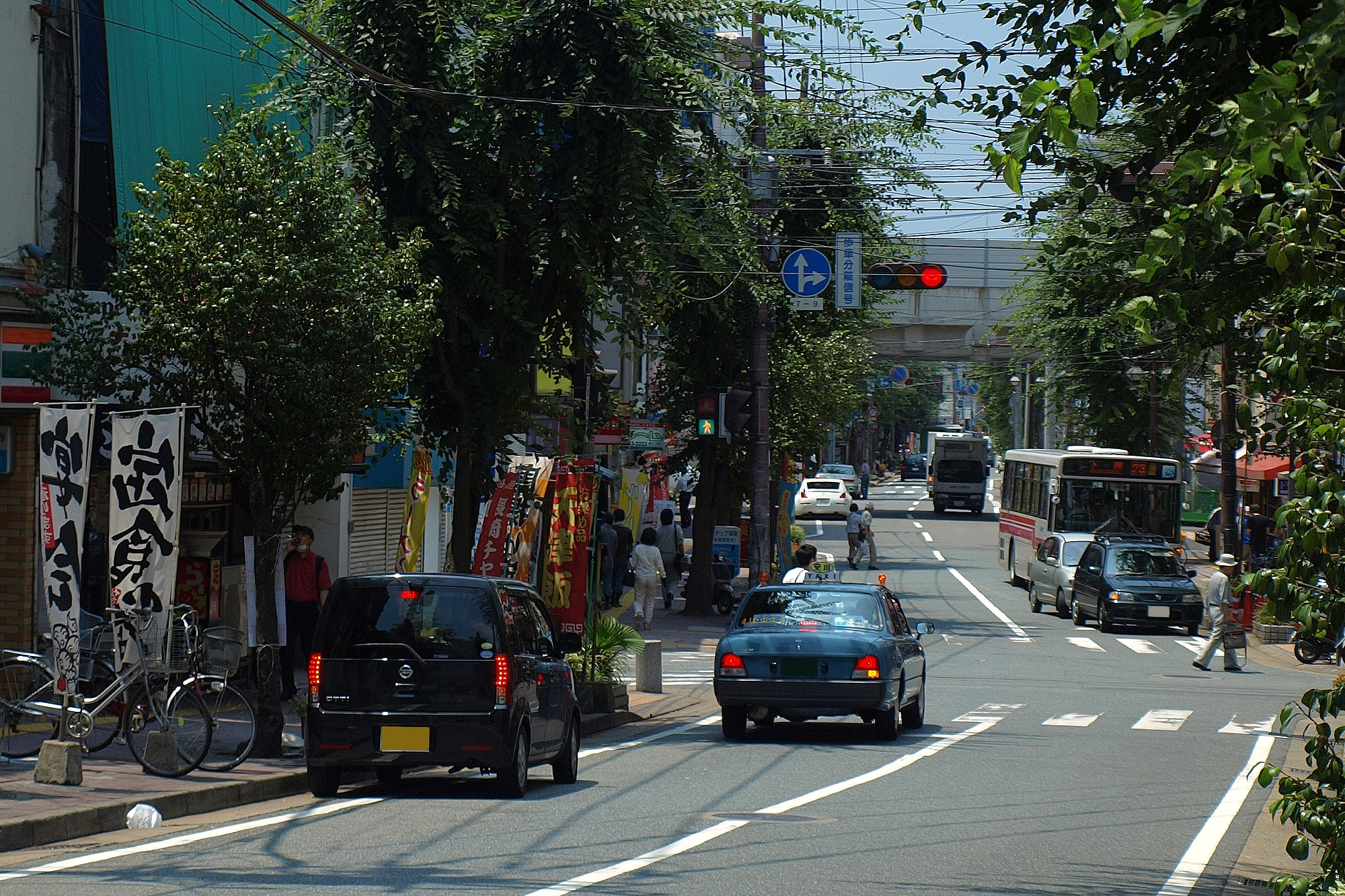 View from Kashii Station in Fukuoka City, Fukuoka Prefecture, Japan